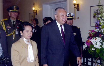 President Gloria Macapagal-Arroyo and Chief Executive Tung Chee-hwa of the Hong Kong Special Administrative Region (SKSAR) held a bilateral meeting where they discussed reciprocal issues, including those that would further promote the welfare of some 180,000 overseas Filipino workers (OFWs) in Hong Kong.